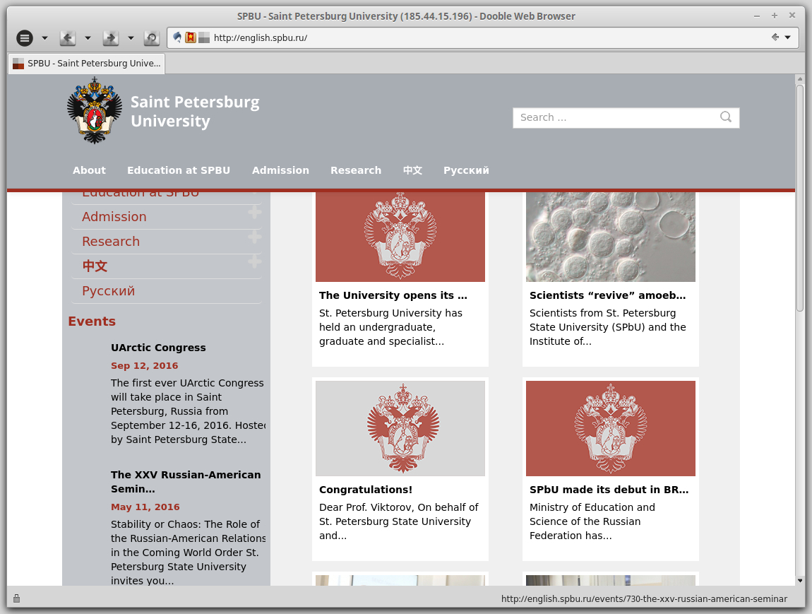 Dooble web browser displaying the English Wikipedia.